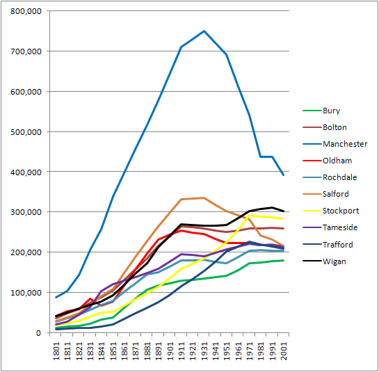 Population of the county of Greater Manchester by borough. Data taken from A Vision of Britain Through Time